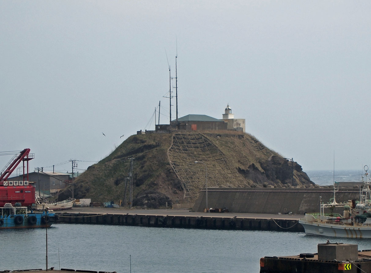 Benten island, Matsumae, Hokkaido, Japan